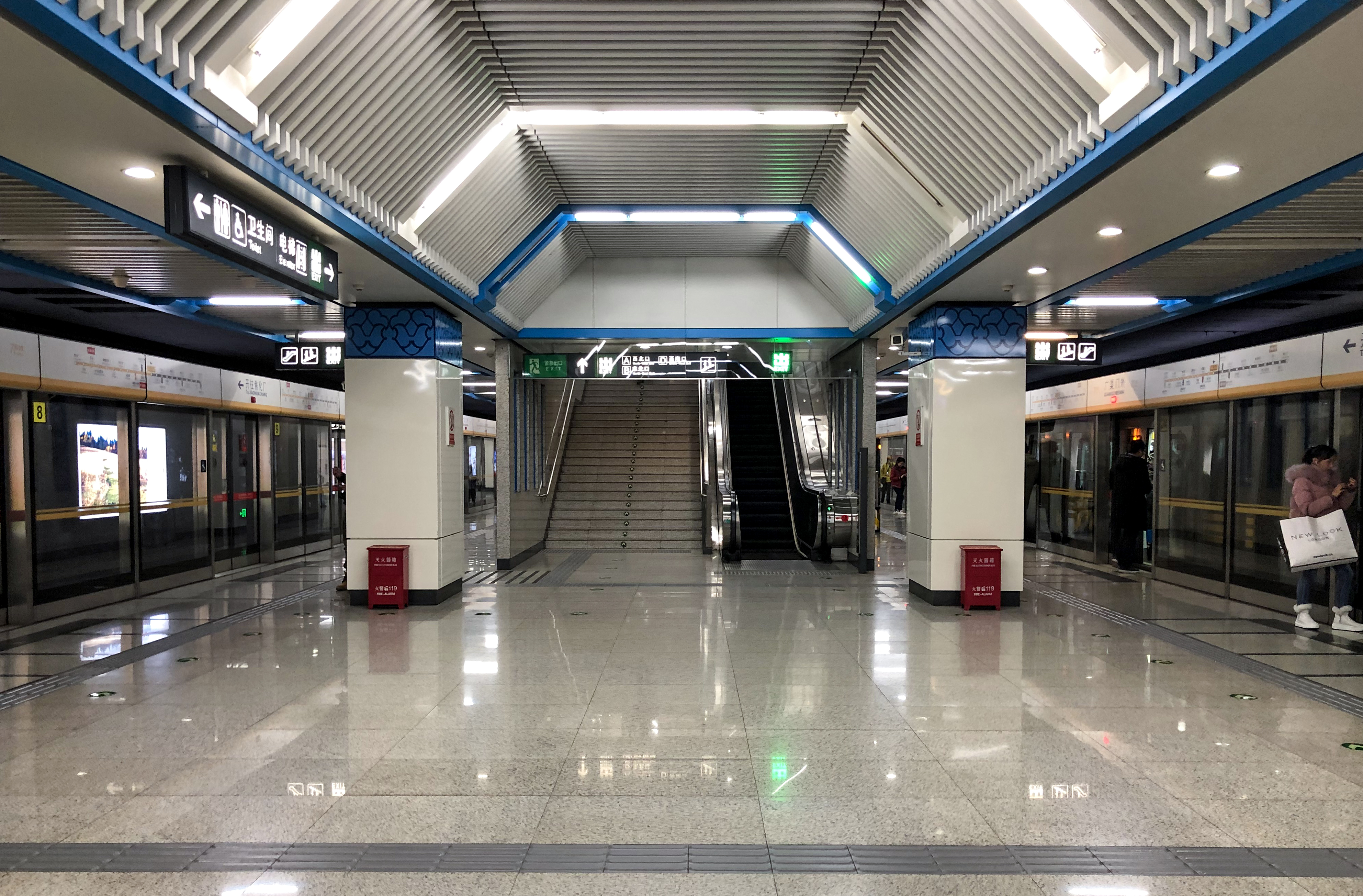 So where's the interface of Line 17?